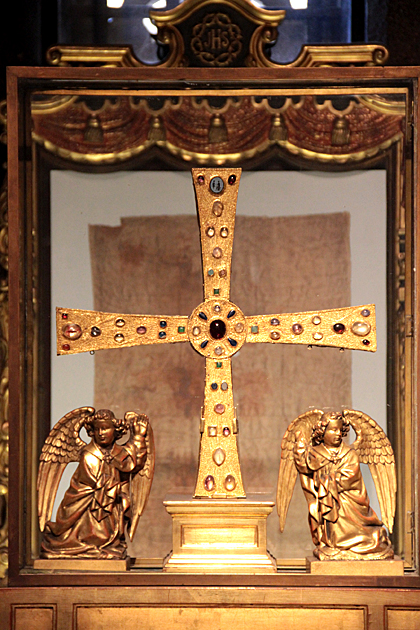 Cruz-de-los-Angeles